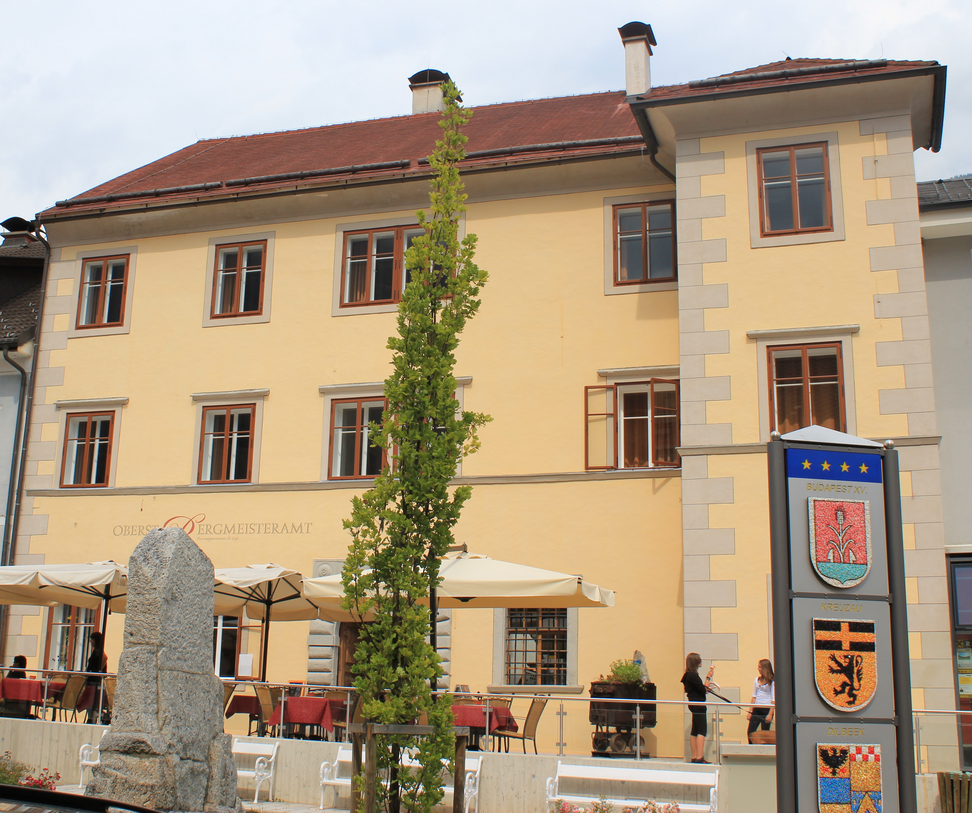 House Obervellach 58 in Obervellach